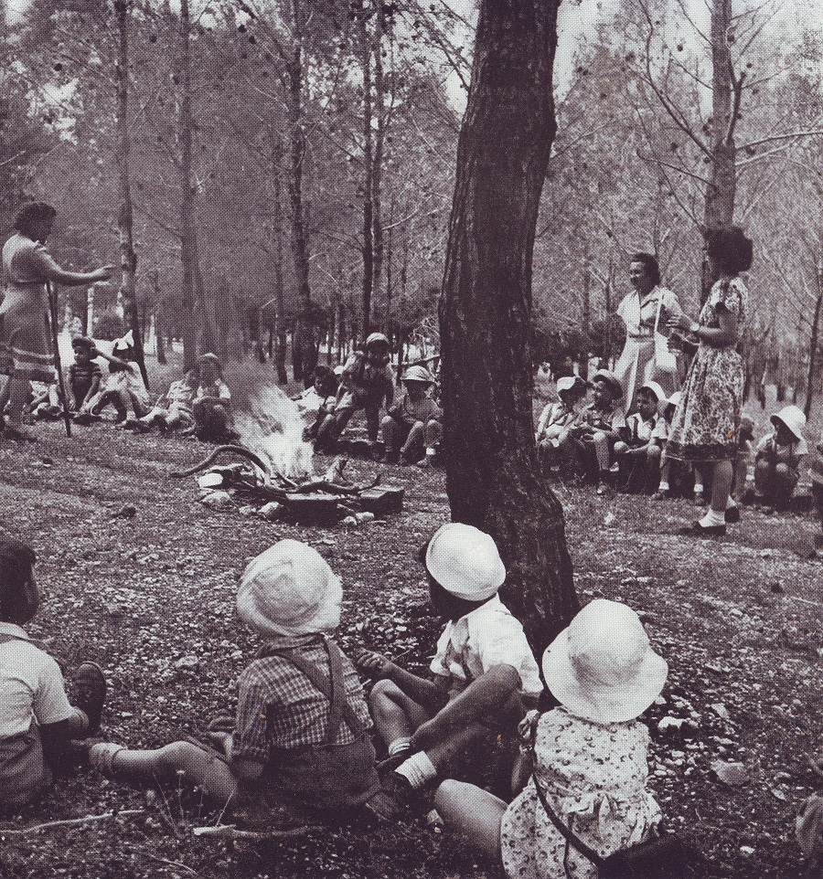 Lag Ba omer, Jewish holidays